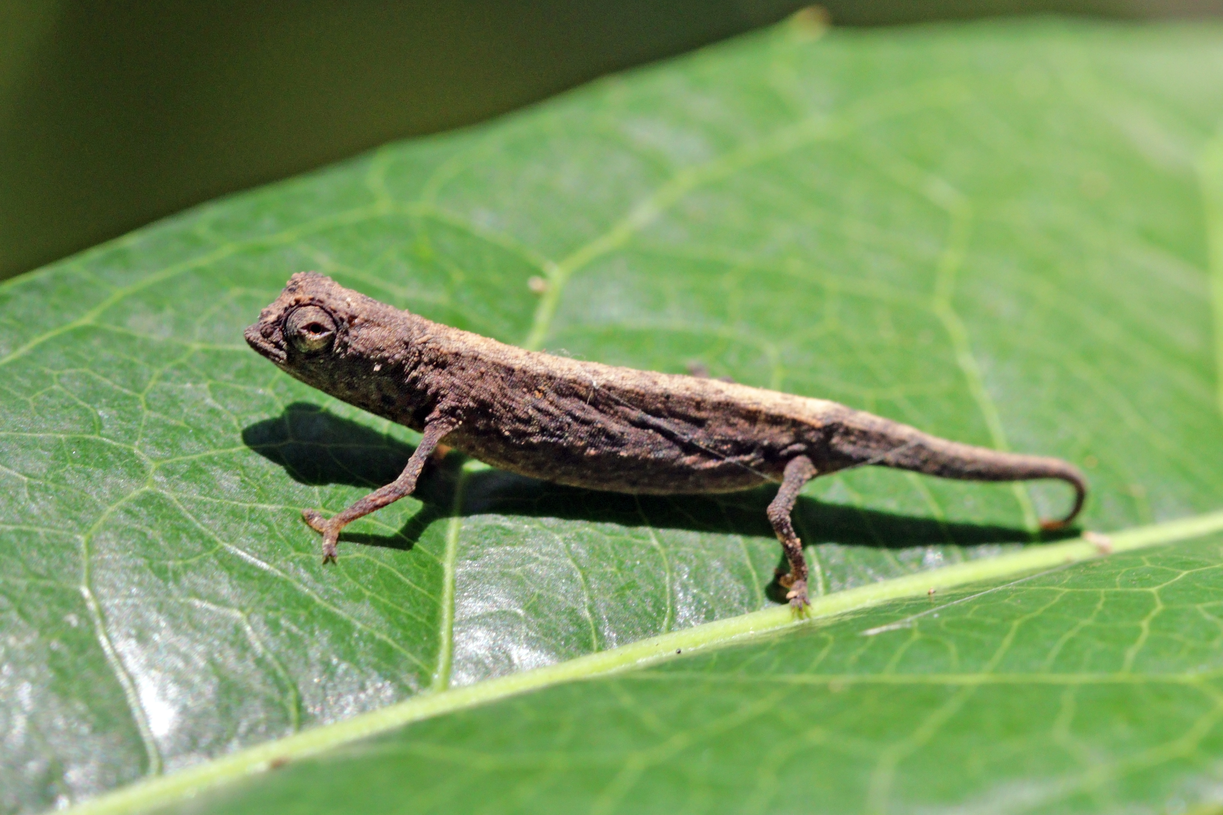 Minute leaf chameleon (Brookesia minima), Lokobe Strict Reserve, Madagascar